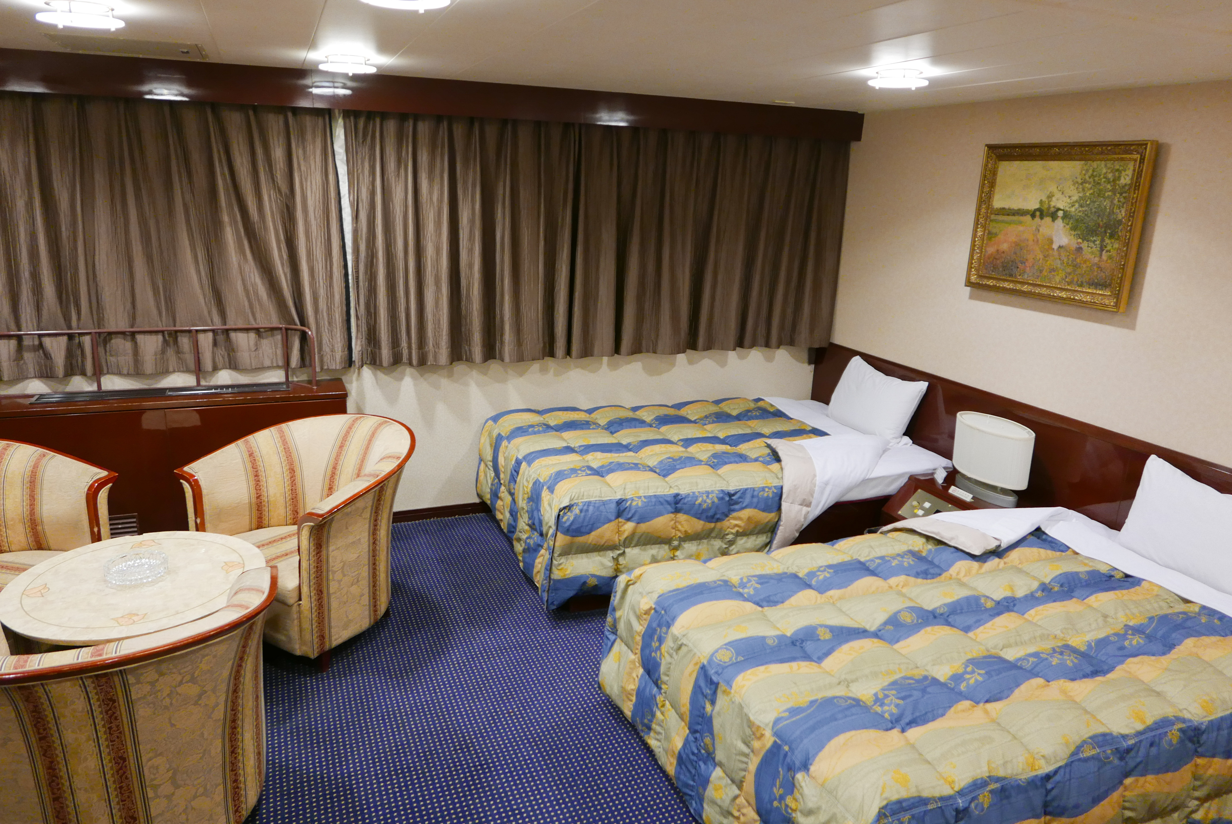 Interior of the Ferry Fukuoka 2 Royal Room